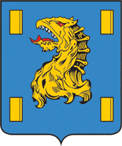 Kyakhta (Buryatia), coat of arms (1861)